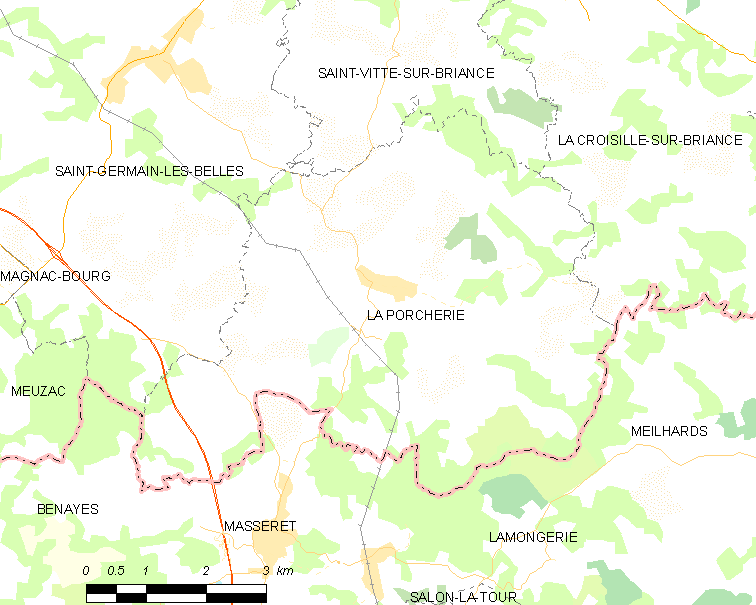 Map of French municipality La Porcherie